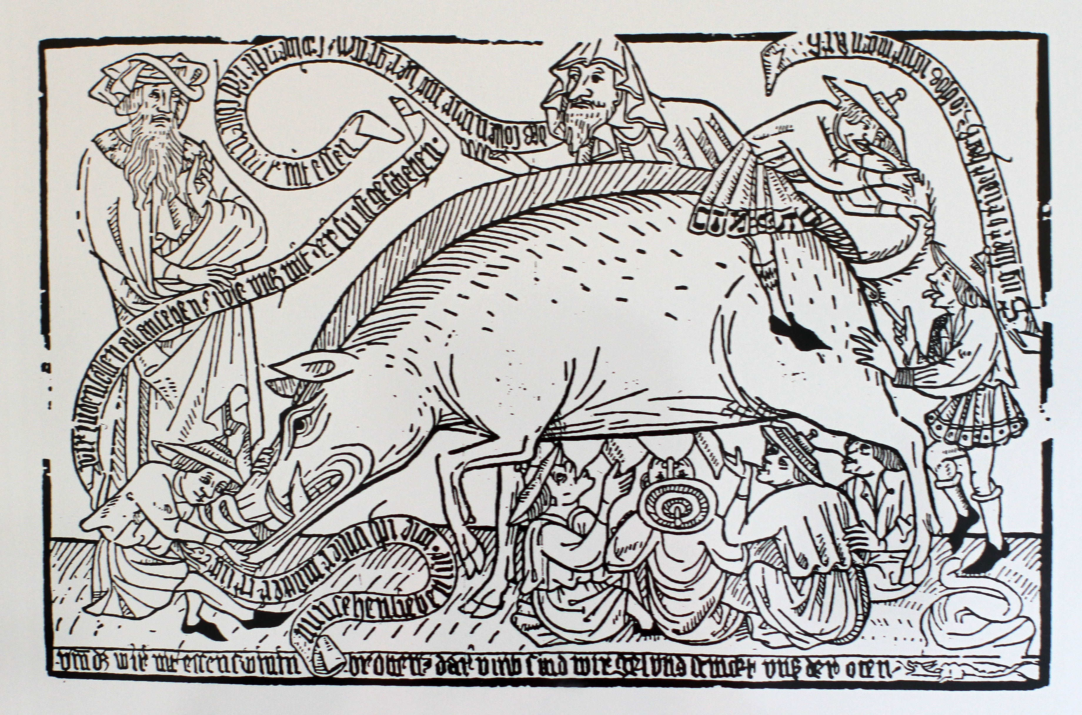 The “Judensau” is a antisemitic woodcut of 15th-century and a violation of human dignity of Jewish people. The illustration is part of the permanent exhibition in Kulturhaus Wittlich, the former Synagogue in Wittlich, Rhineland-Palatinate Germany